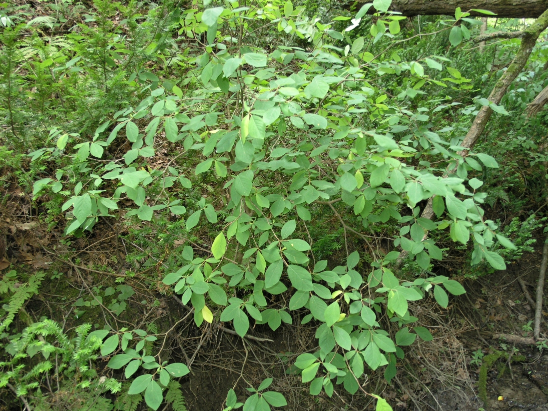 Dirca palustris (leatherwood) in forested ravine. Western Indiana, USA.